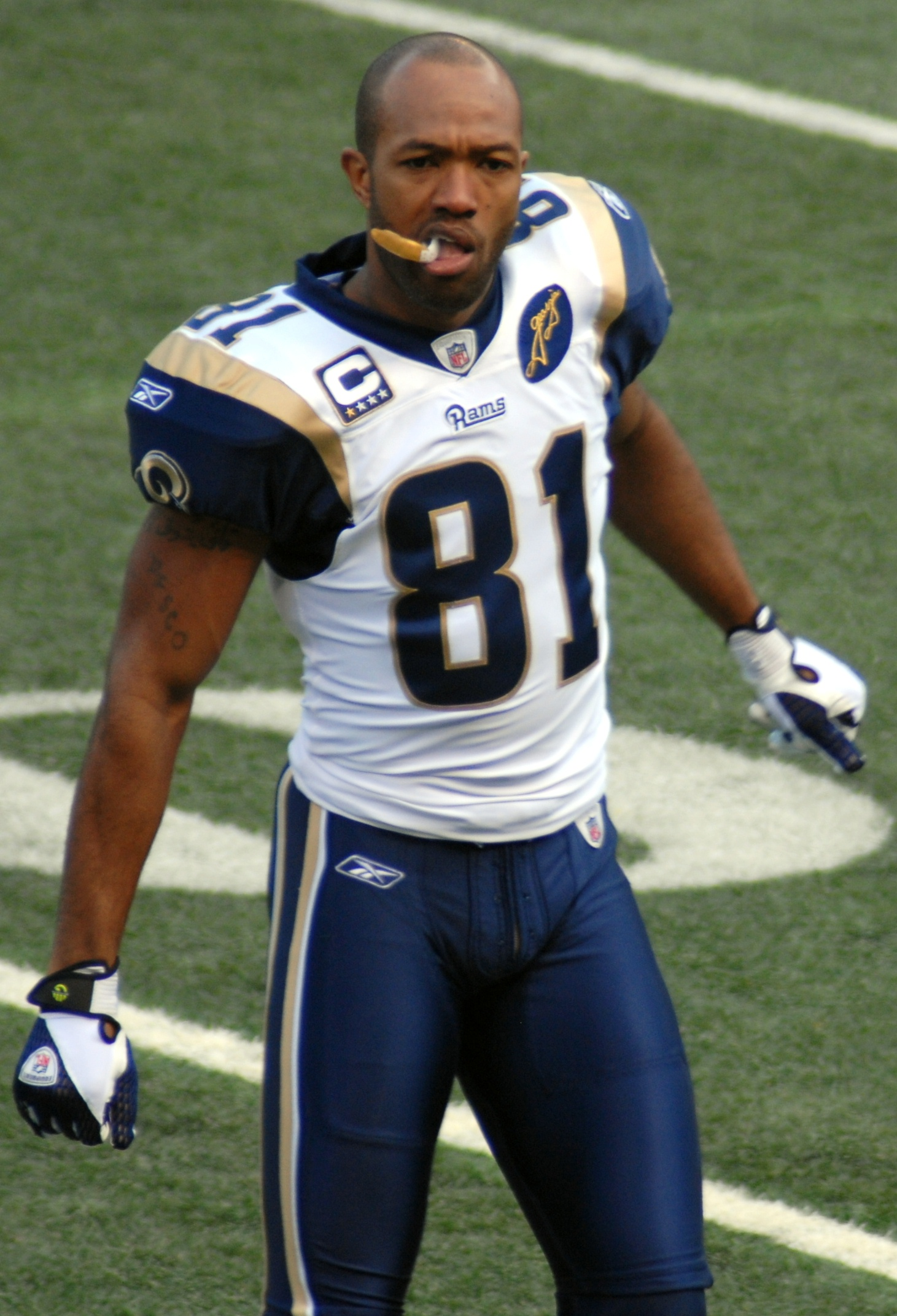 St. Louis Rams wide receiver Torry Holt in the game against the New York Jets on November 9, 2008.